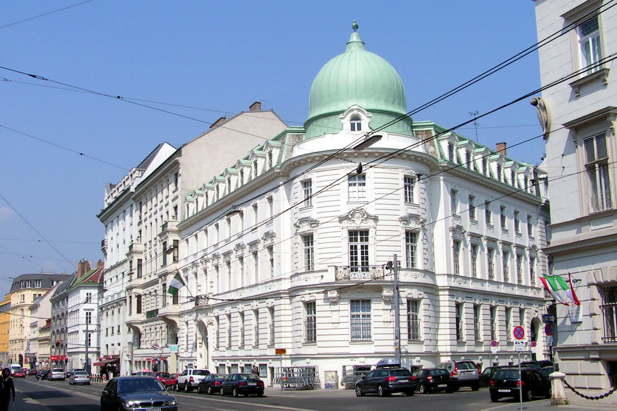 Rennweg 25, seat of the Nigerian embassy in Austria.